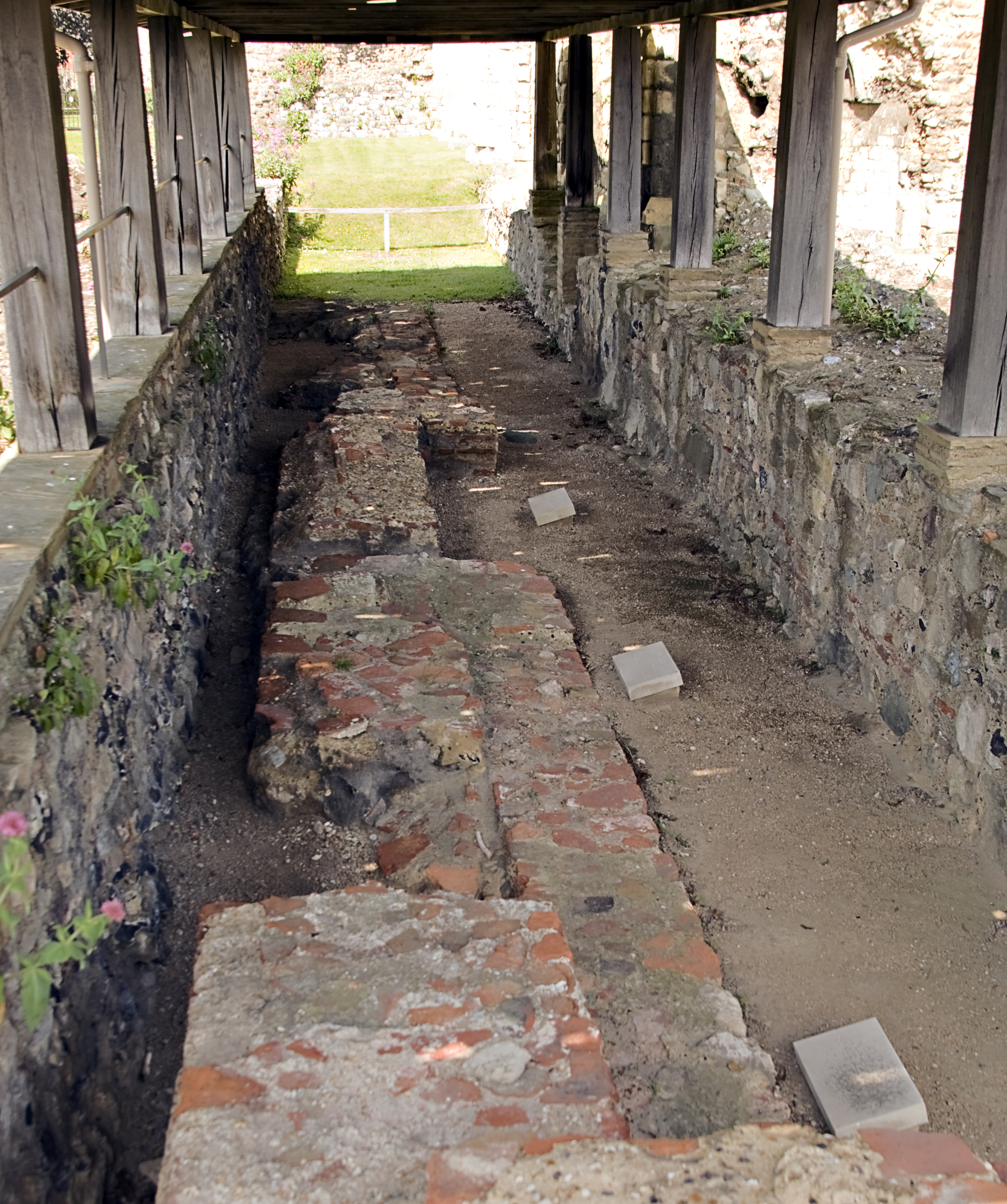 St Augustine's Abbey - gravesites of Mellitus, Justus and Laurence, all early Archbishops of Canterbury. Mellitus was also the first Bishop of London and Justus was the first Bishop of Rochester.